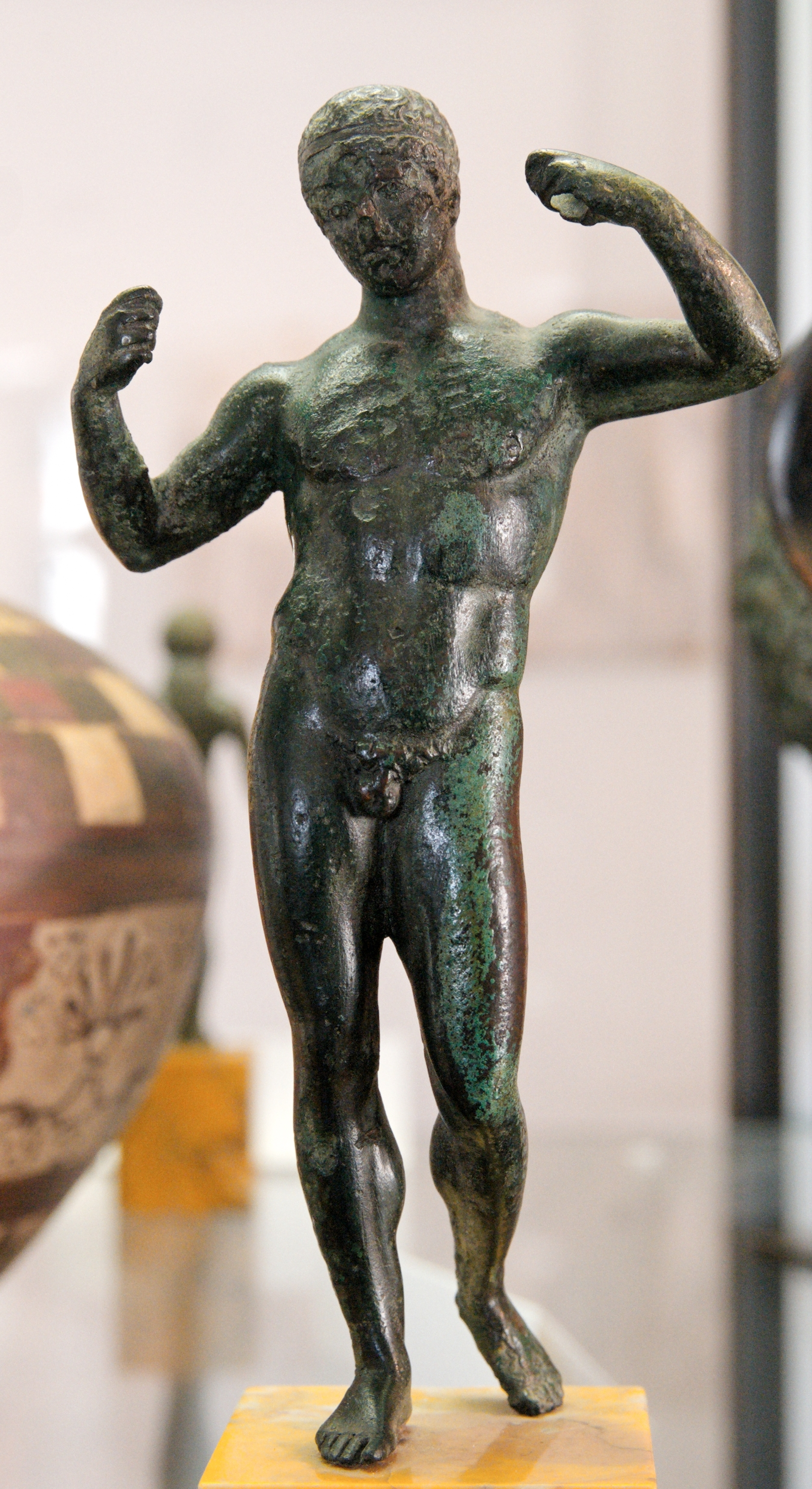 Bronze statuette of the Diadumenos type, copy after a Greek original of the 5th century BC.